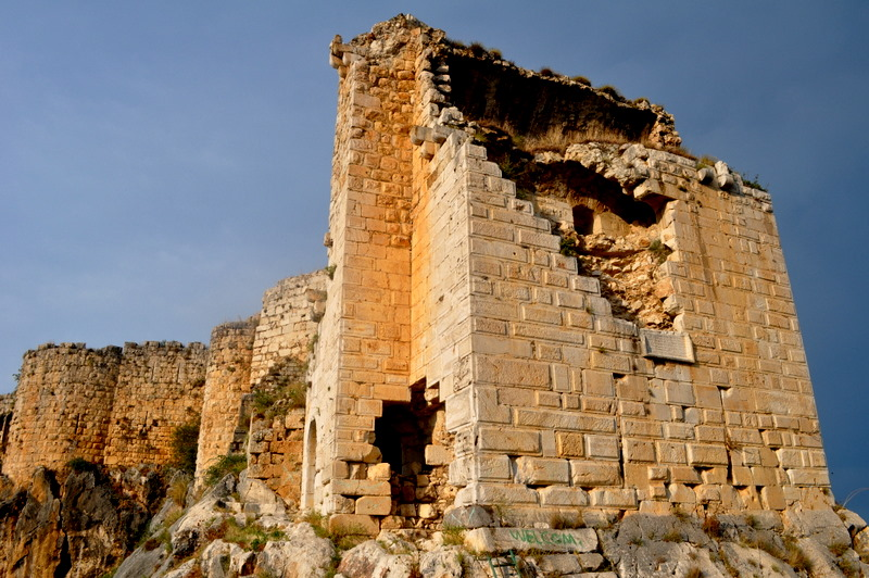 Fortress of Anazarbus, Cilicia, Turkey.